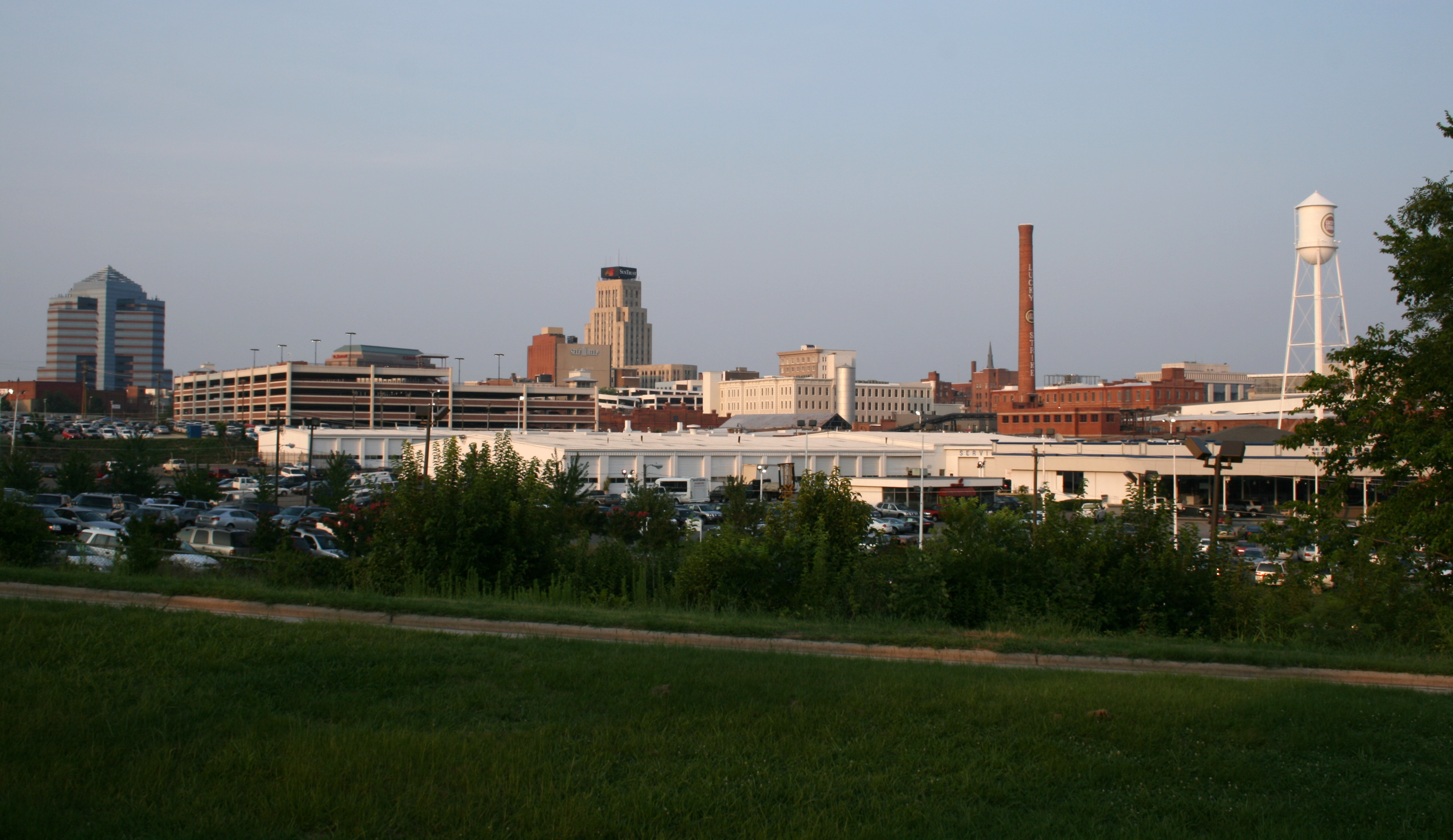 Downtown Durham, North Carolina viewed from the NC 147 exit onto Duke St.